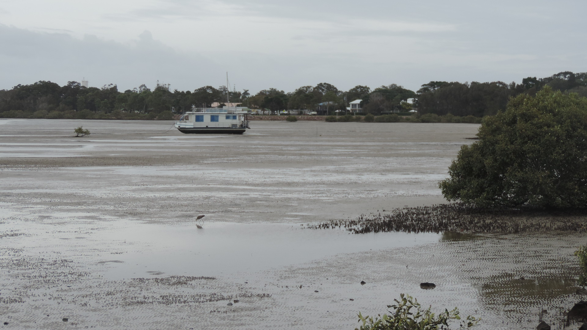 Looking out to the Great Sandy Strait from Norman Point, Tin Can Bay, Queensland, 2016